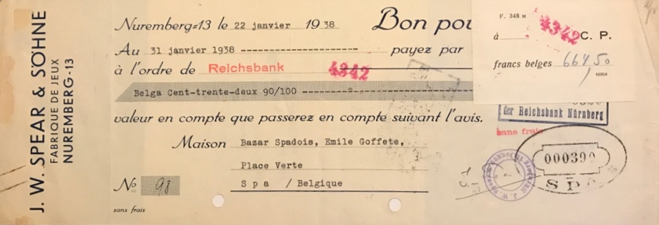 Promissory note of the company J.W. Spear & Sons from th 12th of january 1938 (front)